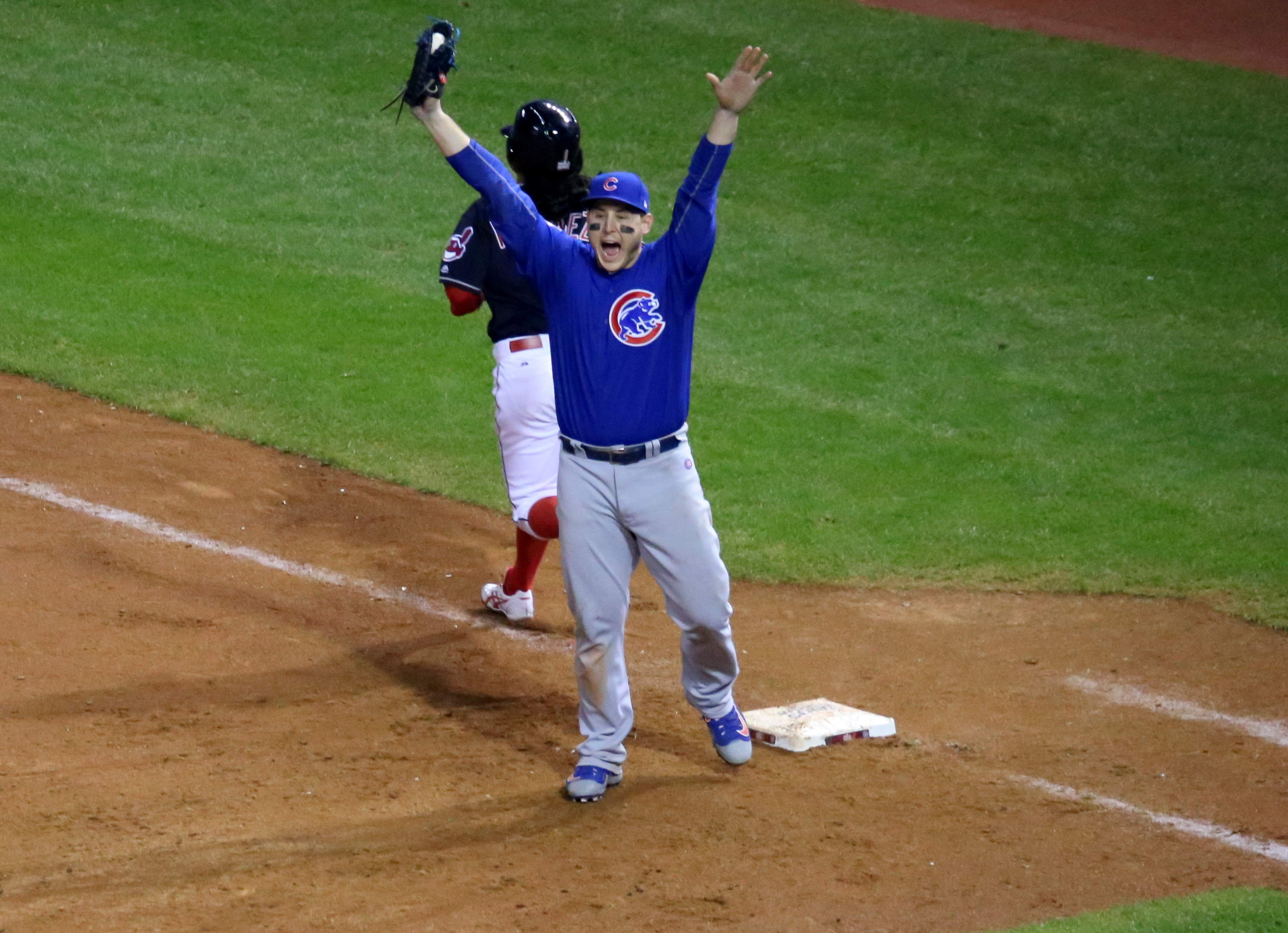 Anthony Rizzo after catching the ball tossed by Kris Bryant to clinch the final out of the 2016 World Series and the Chicago Cubs' first World Series championship in 108 years.